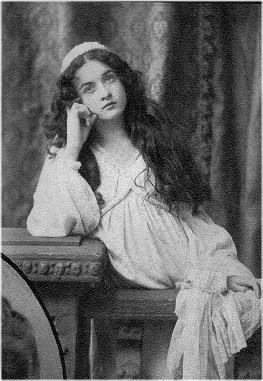 Maude Fealy appearing as Juliet in the Balcony Scene, aged 15